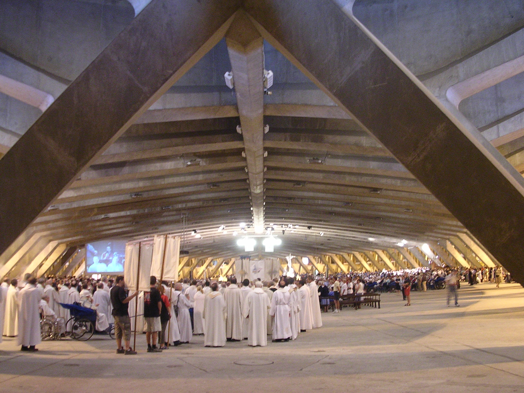 Lourdes, France